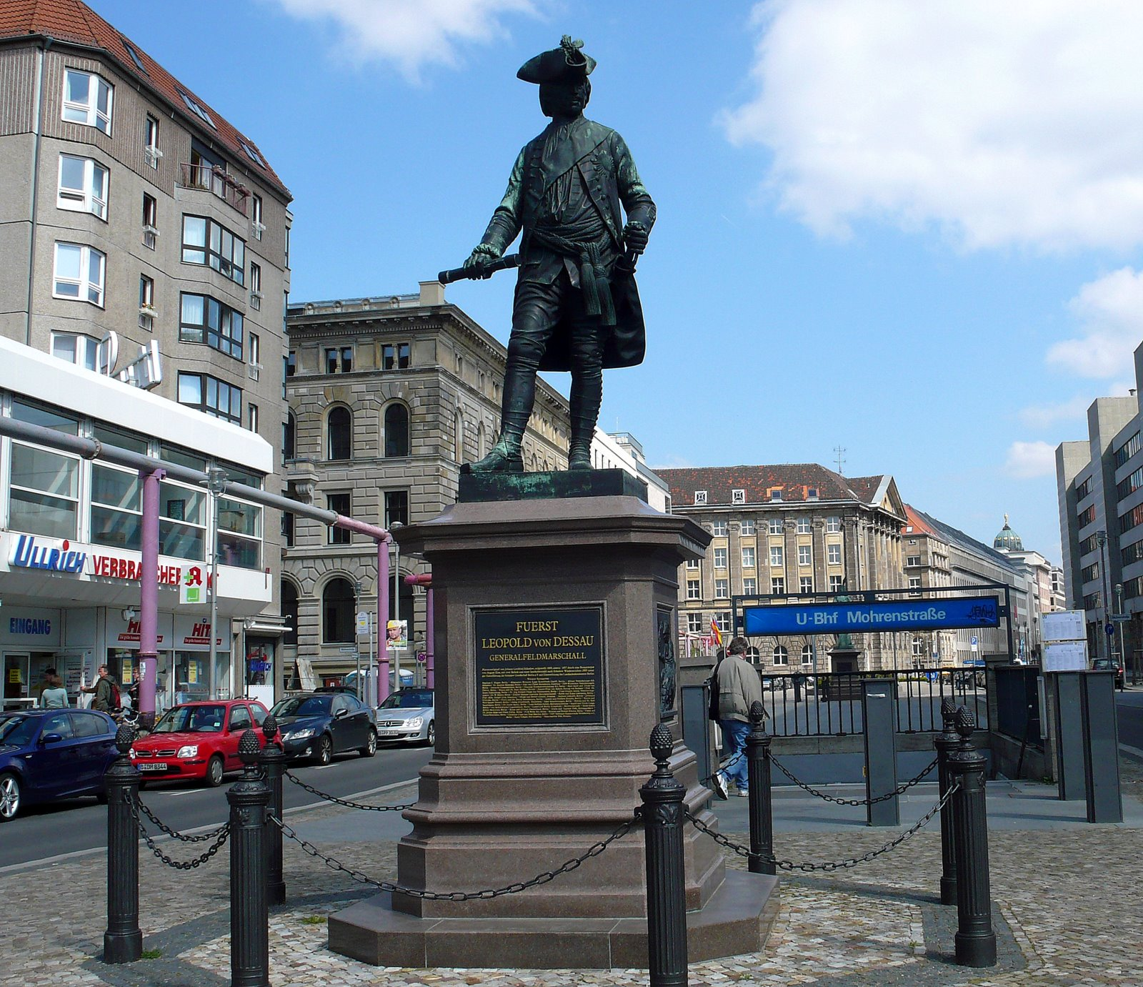 Western metro entrance at Mohrenstraße behind the Prince Leopold of Dessau statue.